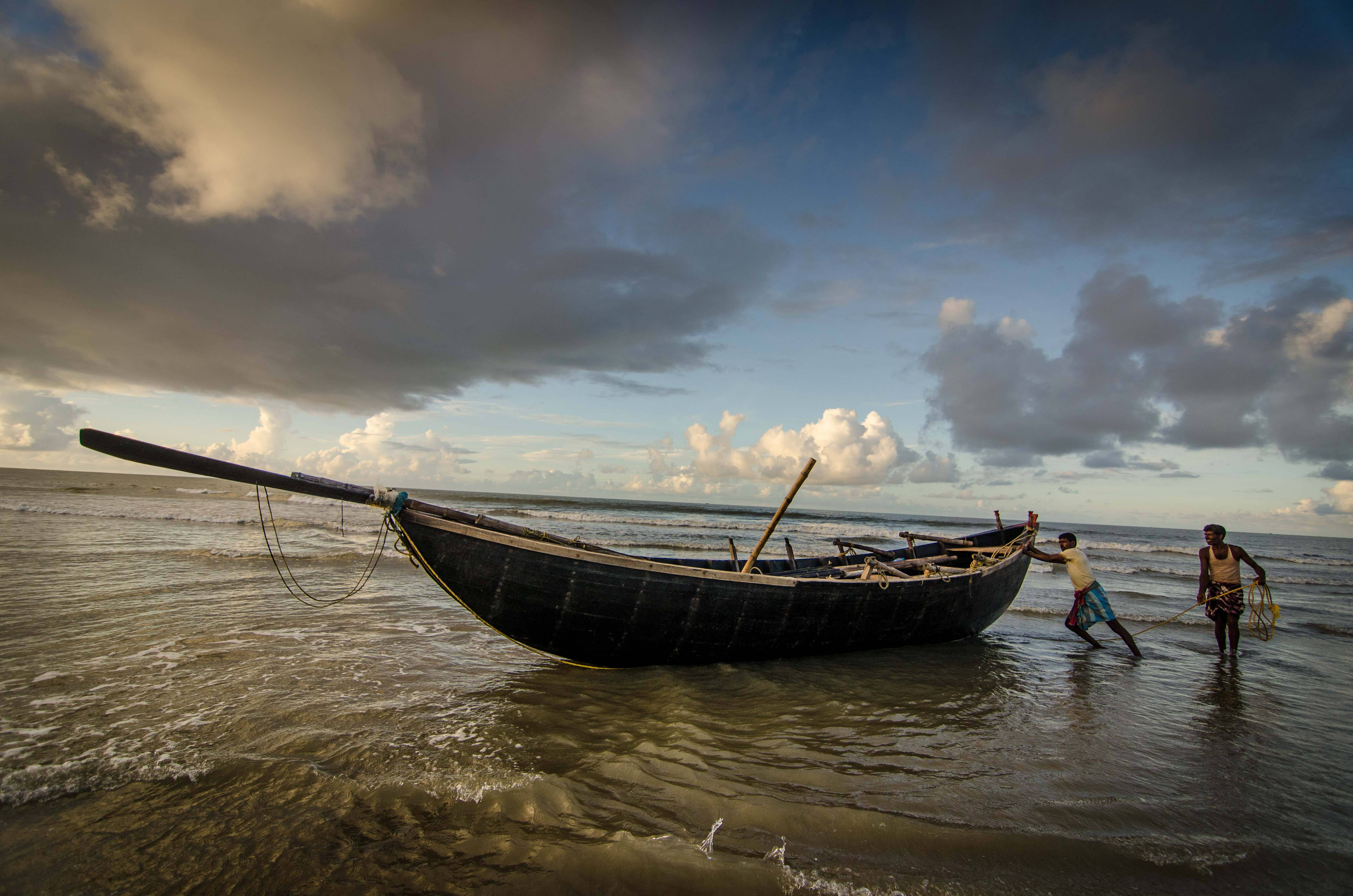 Dawn at Mandarmani, West Bengal India as the fishermen prepare to launch their boats.